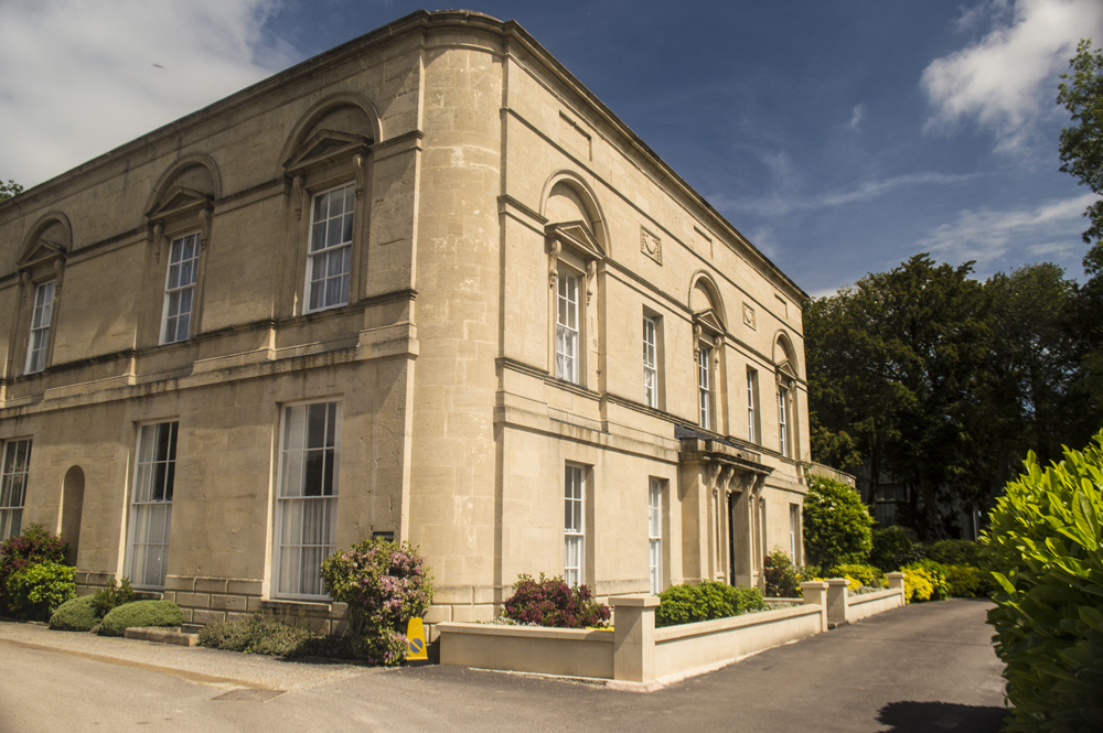 Fromefield House, 1 Bath Street, Frome, Somerset, BA11 2HF; Grade 2 listed building, built in 1797, Sheppard family home